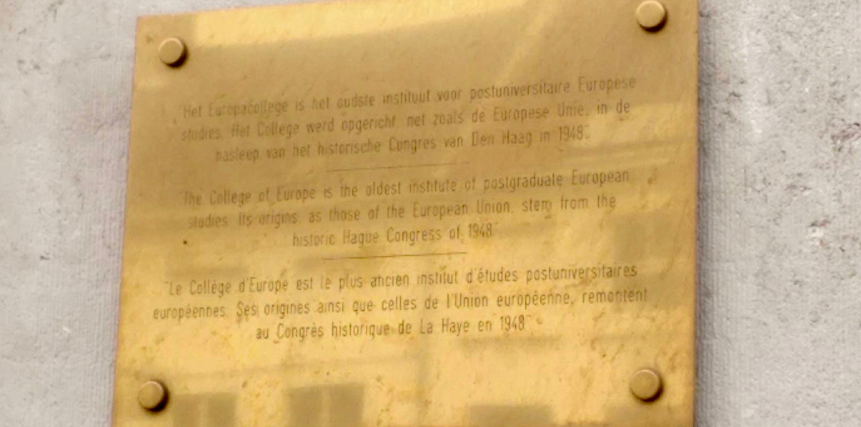 Presentation of the College of Europe 1